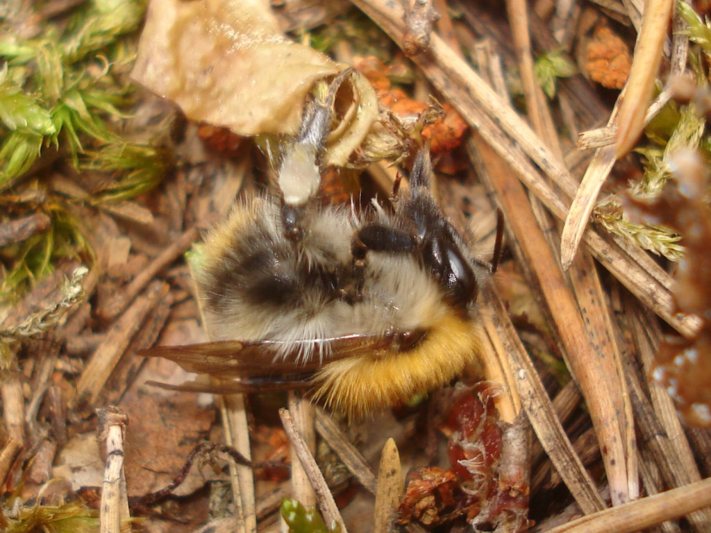 Bombus schrencki